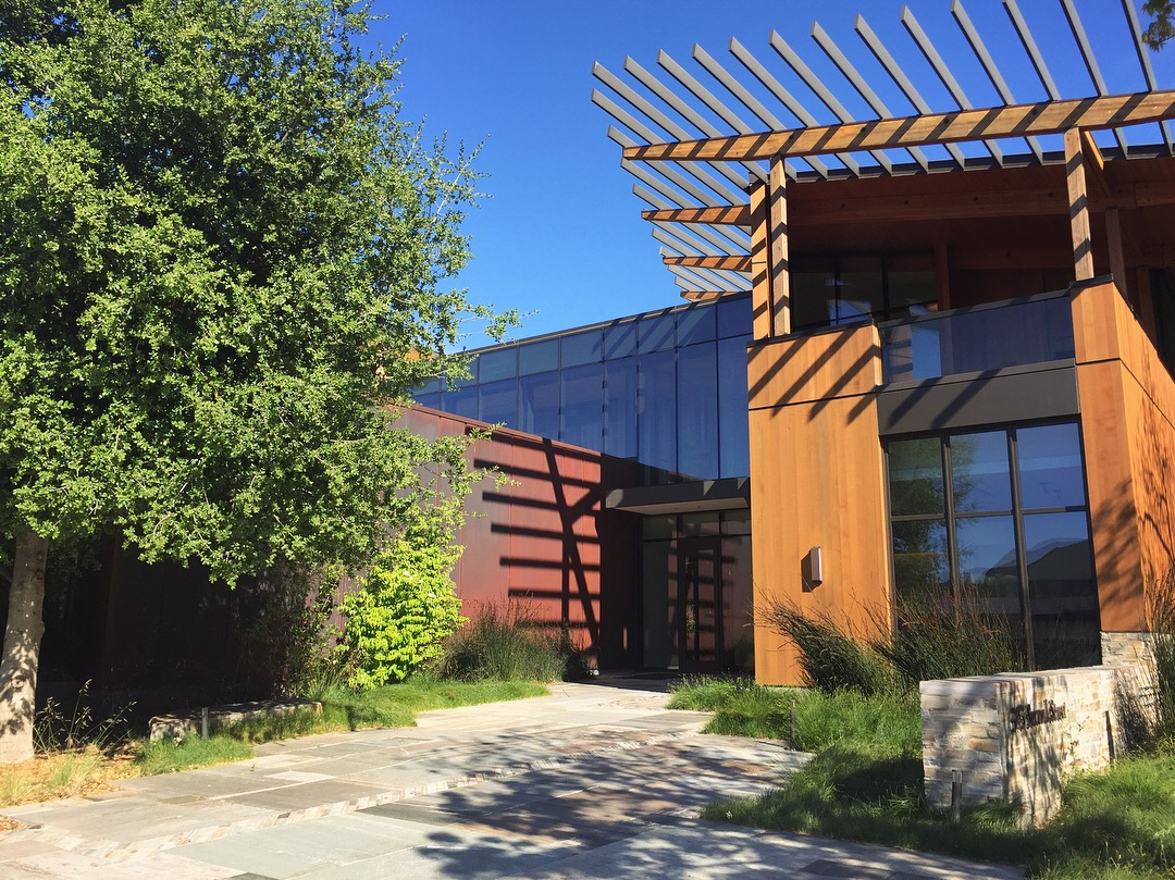 Exterior view of the headquarters for the David and Lucille Packard Foundation located in Los Altos, California.